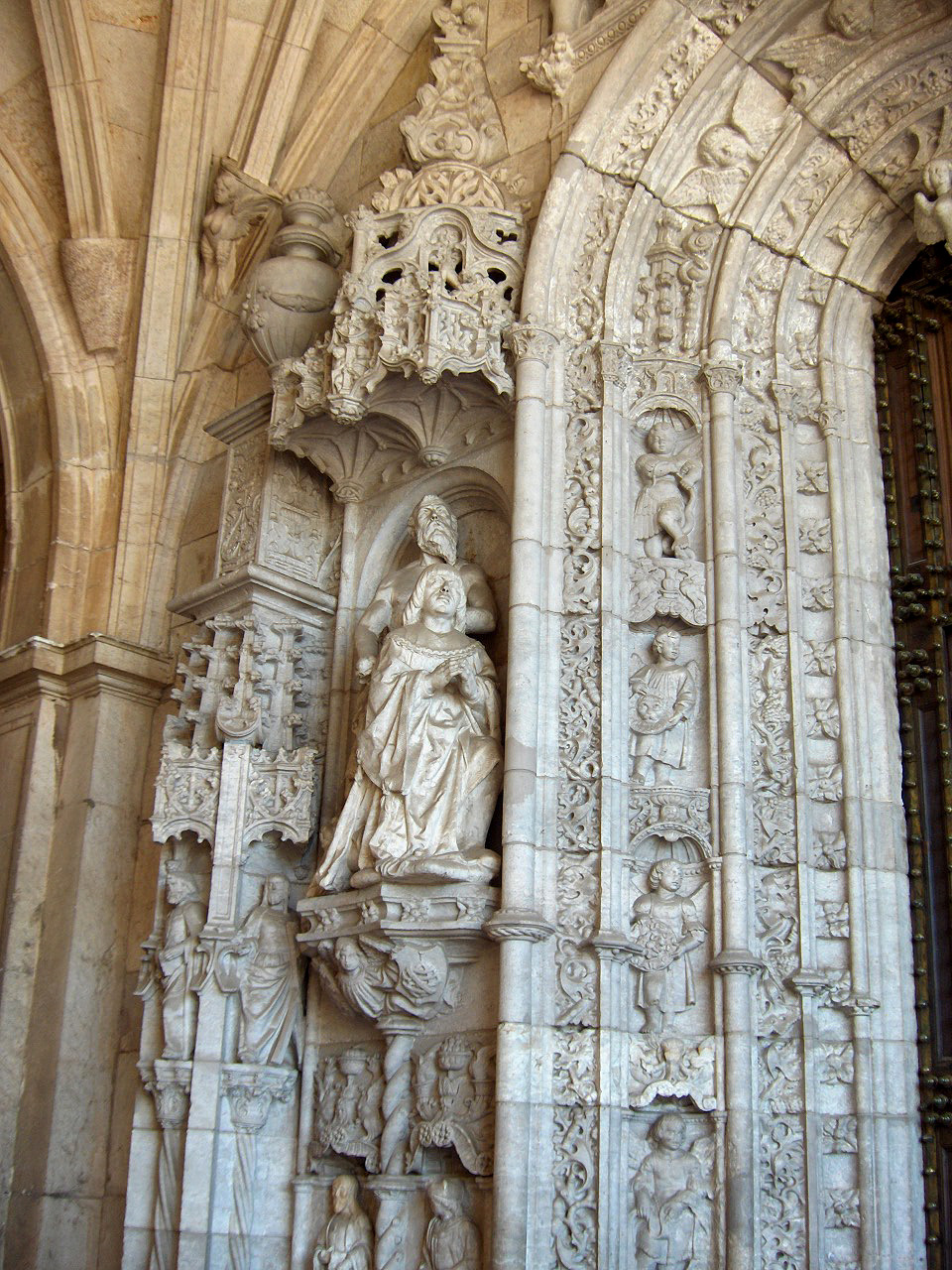 Western portal of the church (by Nicolas Chantarene) of the Jerónimos Monastery, Belém, Portugal; statue of King Manuel and his second wife Maria of Aragon